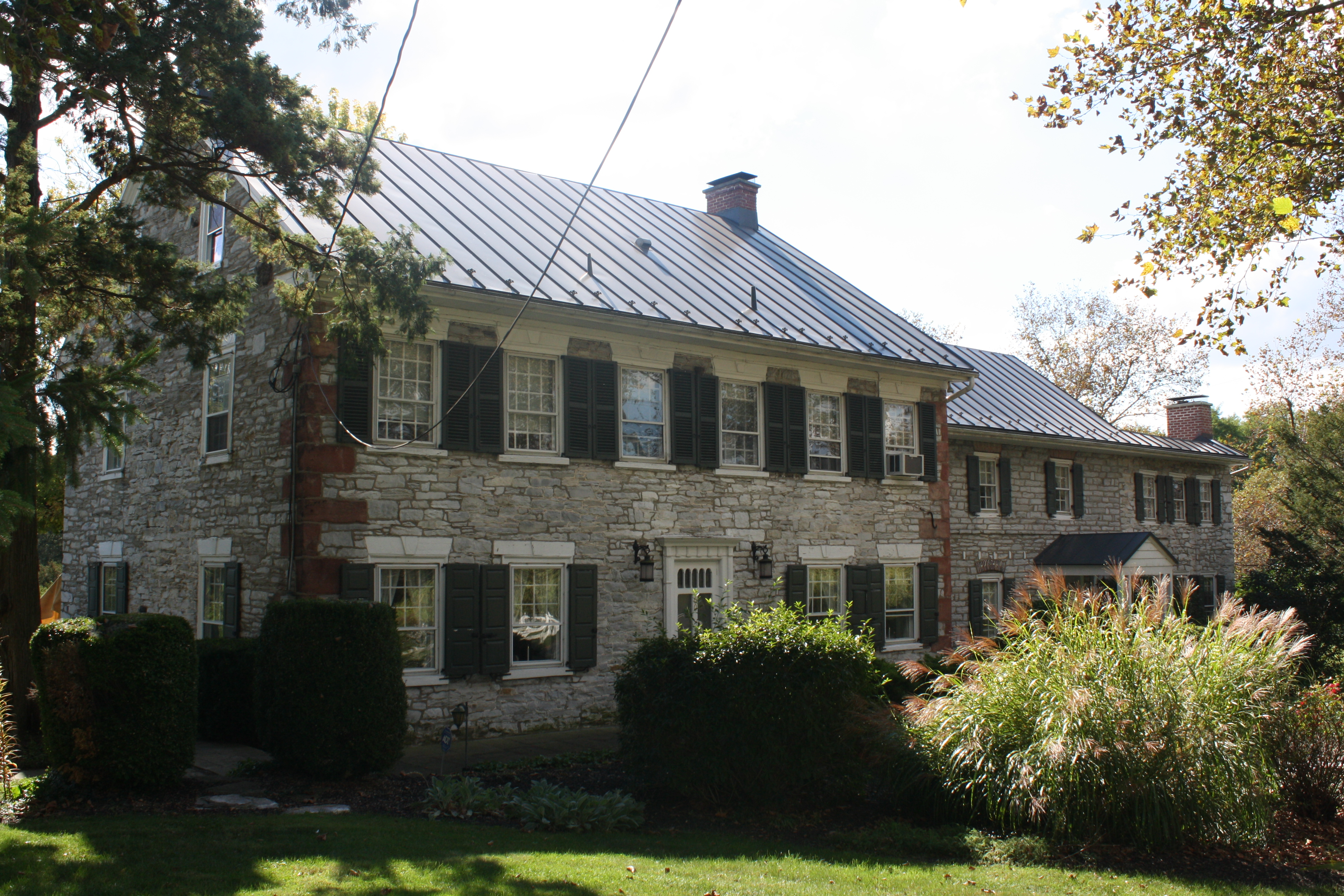 Peter Spicker House is a historic home located at Stouchsburg, Marion Township, Berks County, Pennsylvania. North end side.